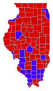 Results by county, 1998, for State Treasurer of Illinois